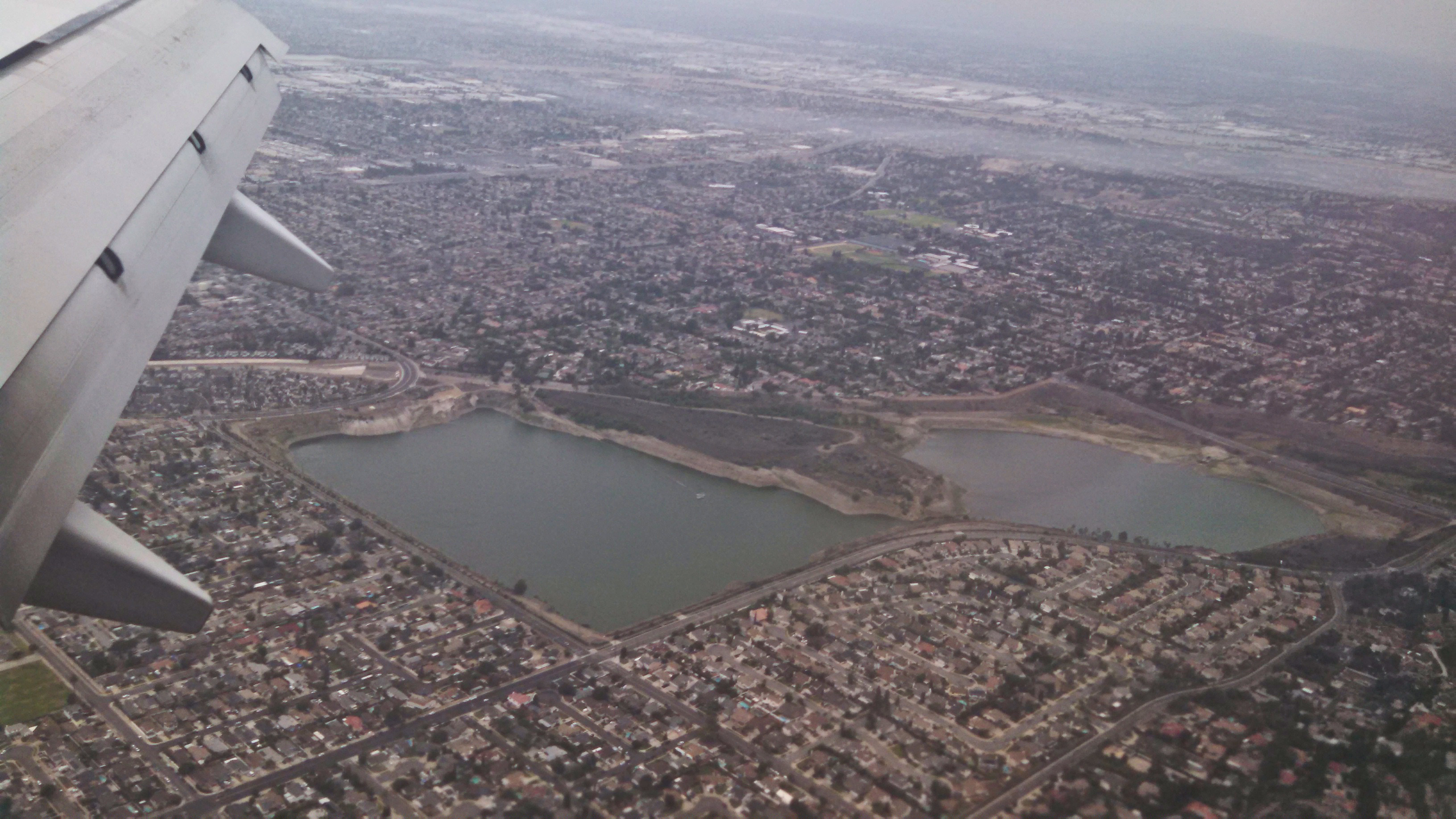 View of Santiago Creek Recharge Basin in Orange County, California, from the air. Santiago Creek is a tributary to the Santa Ana River